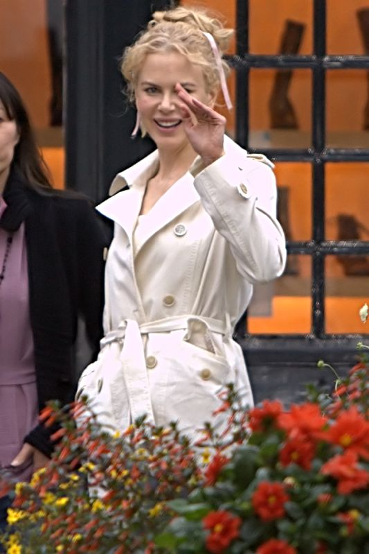 Nicole Kidman waving to the camera